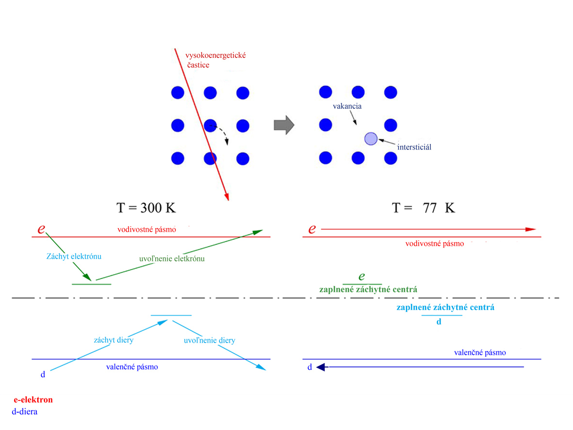 Lazarov jav